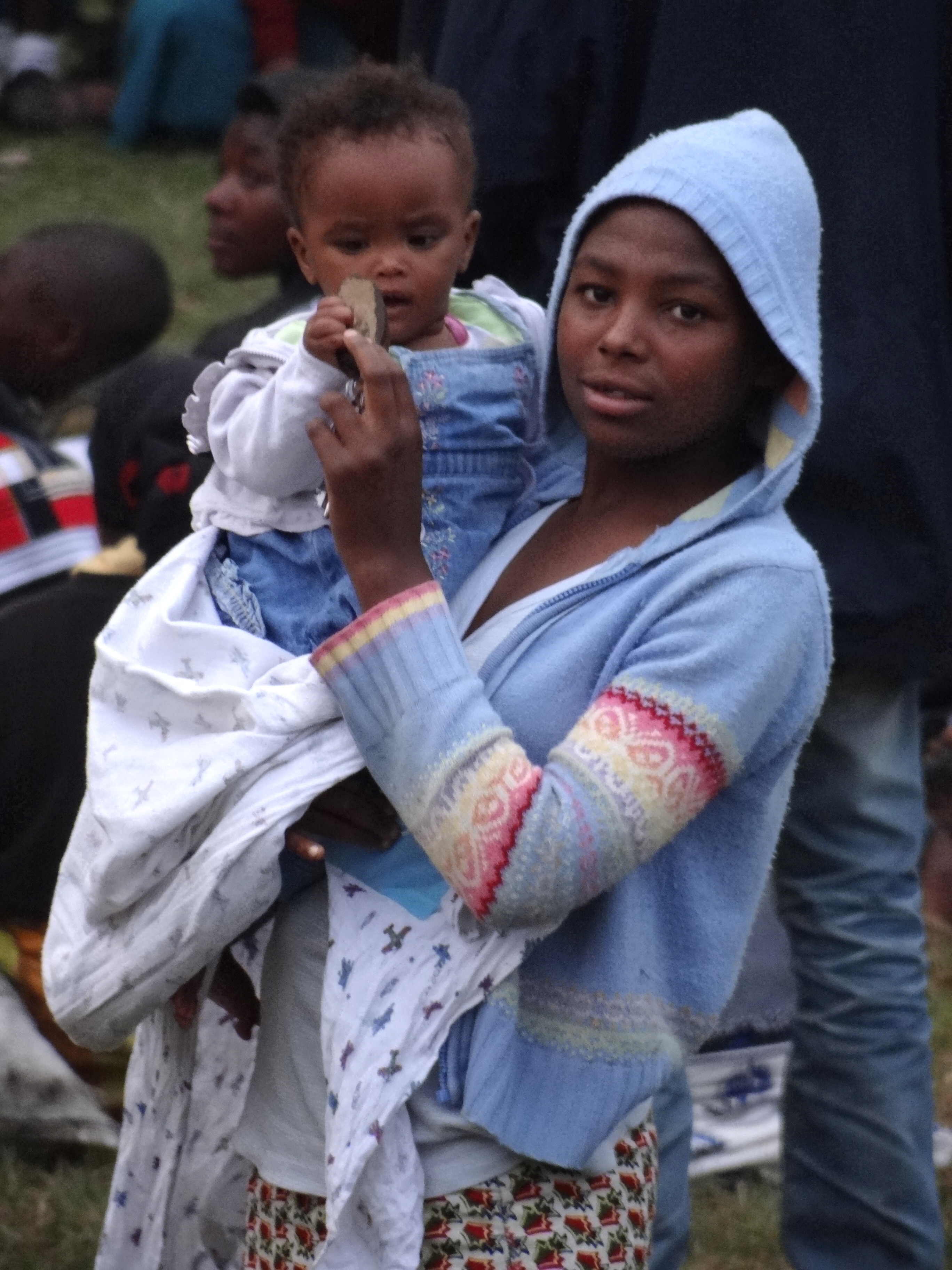 Woman with Child - Kisoro - Southwestern Uganda